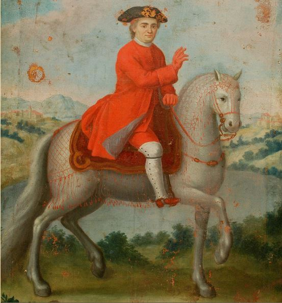 Pope Clement XIV on horseback